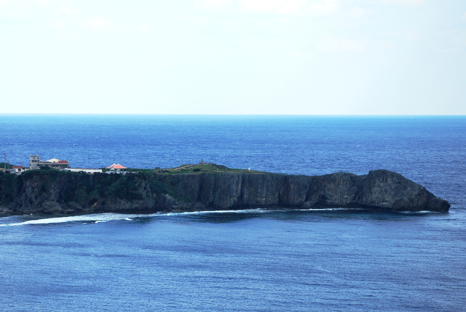 View of Cape Hedo from Yanbarukuina observatory